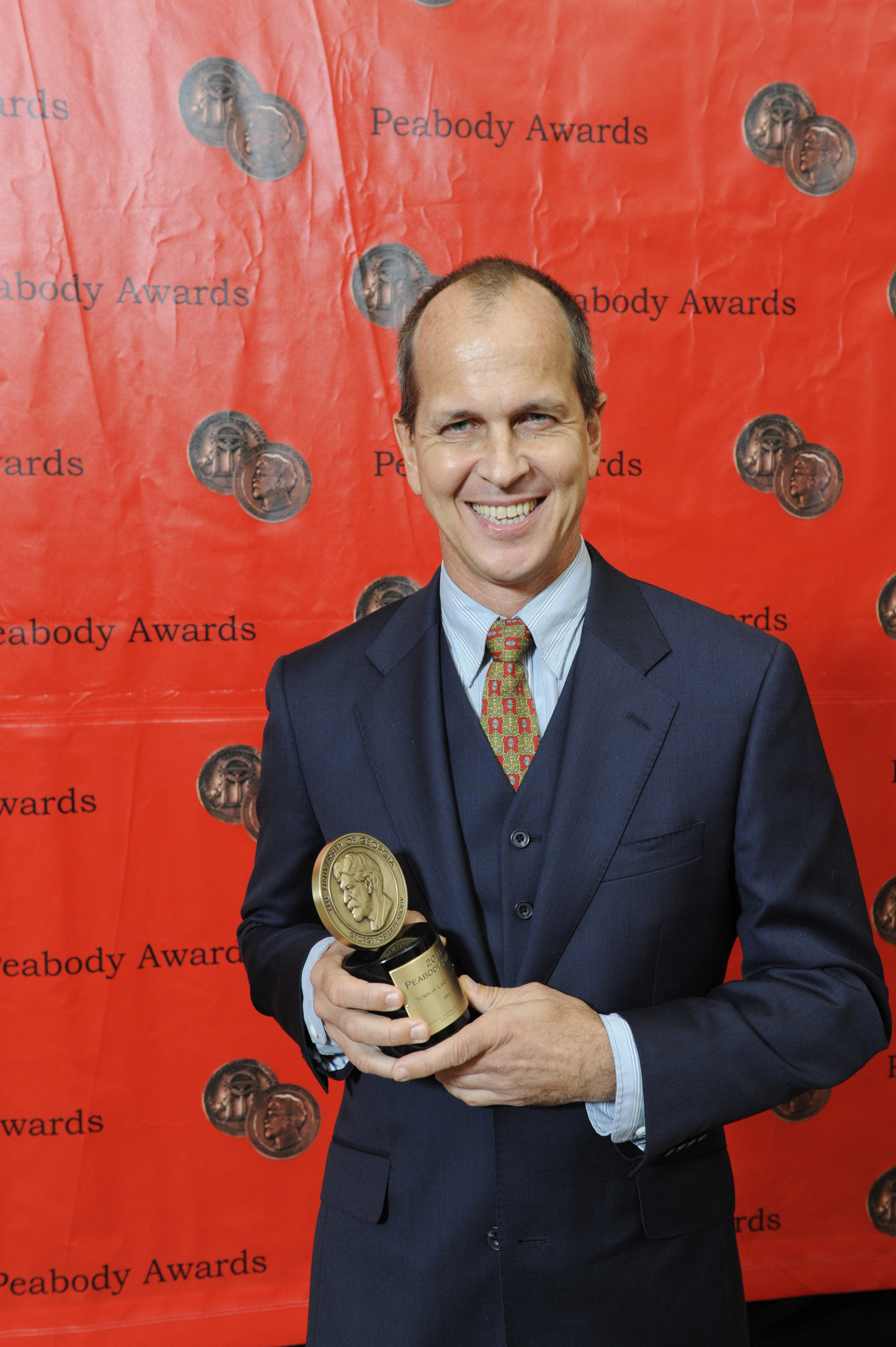 Greste with his Peabody award for "Somalia" 71st Annual Peabody Awards Luncheon Waldorf=Astoria Hotel May 21, 2012